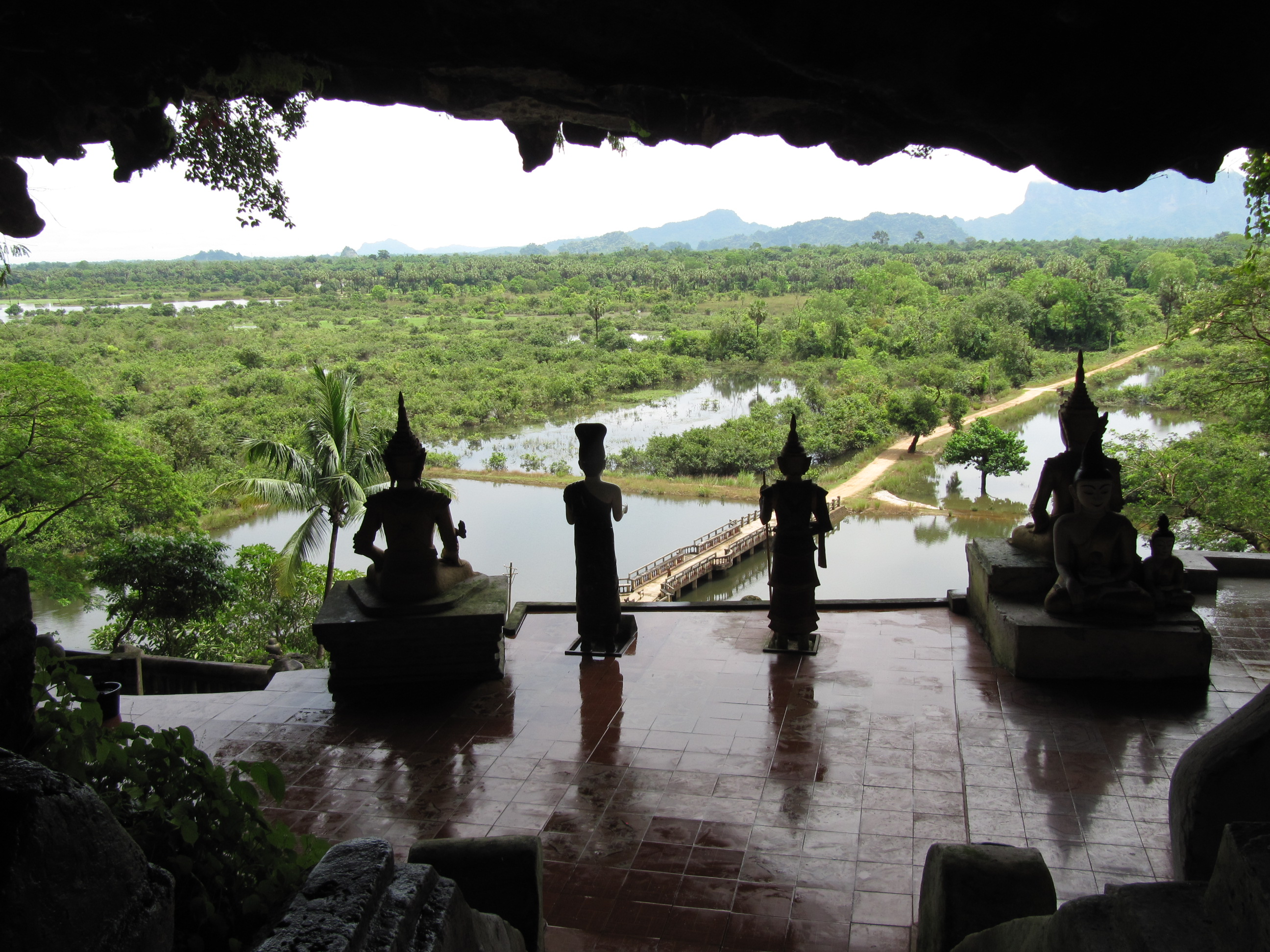 Yathaypyan Cave